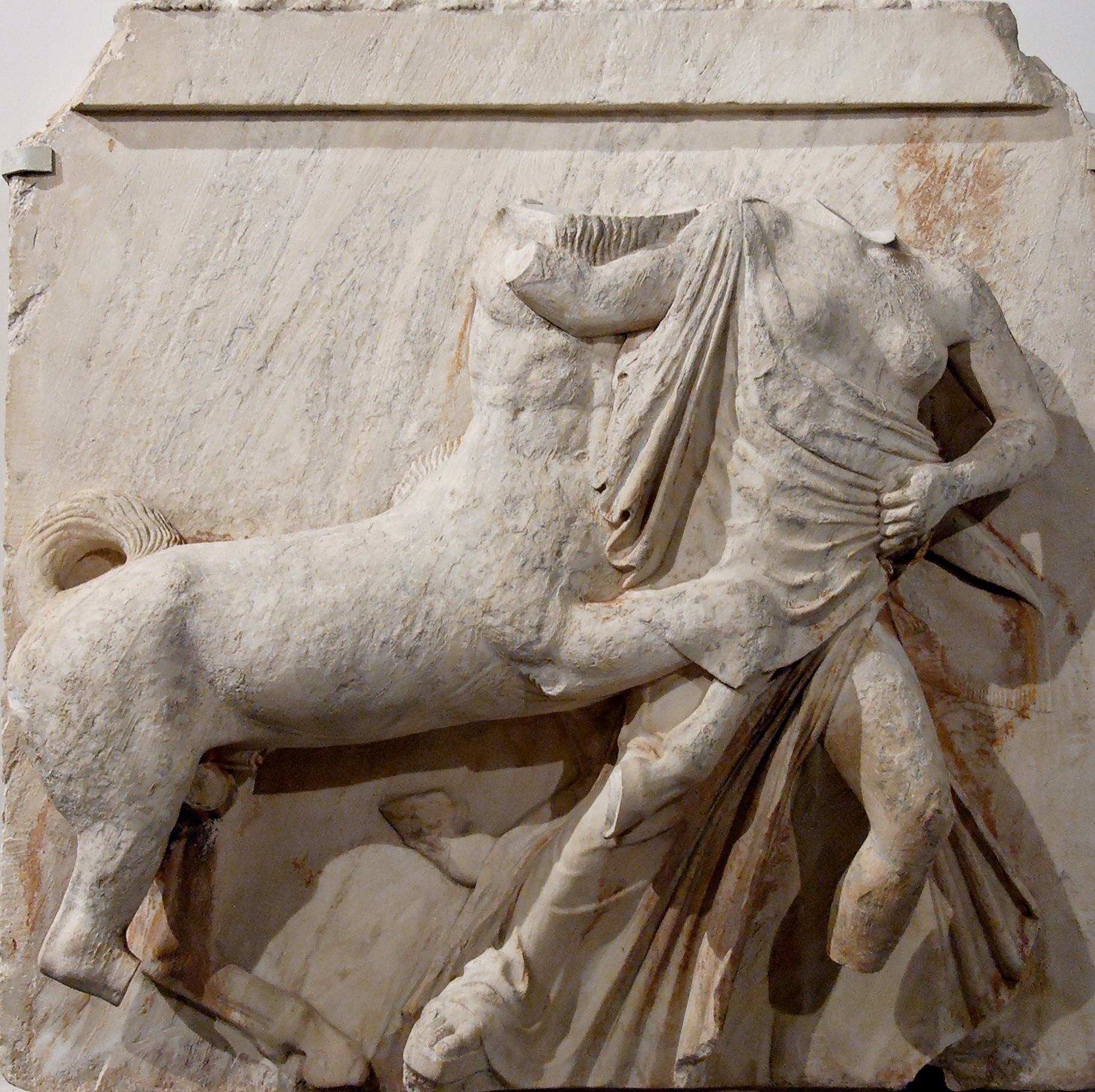 Centaur raping a Lapith woman. Block X from the south metope, Parthenon. Pentelic marble, ca. 447–440 BC.